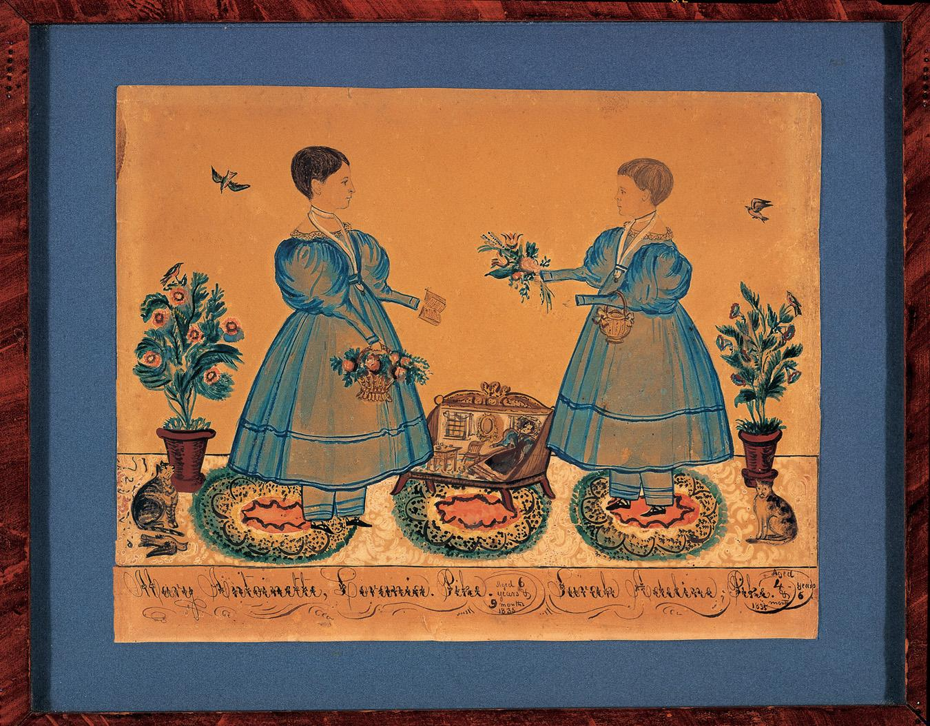 Watercolor portrait by Joseph H. Davis